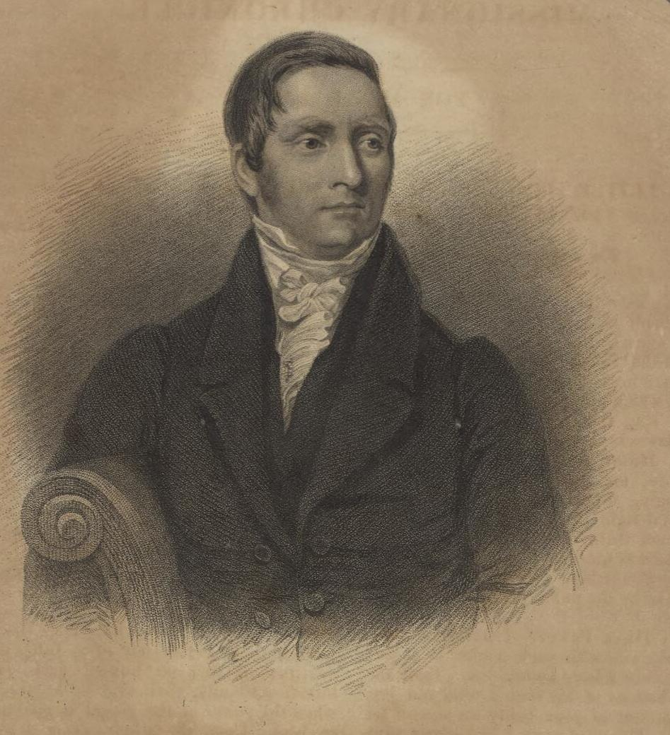 A portrait from the Welsh Portrait Collection at the National Library of Wales. Depicted person: David Jones – Welsh Christian missionary to Madagascar